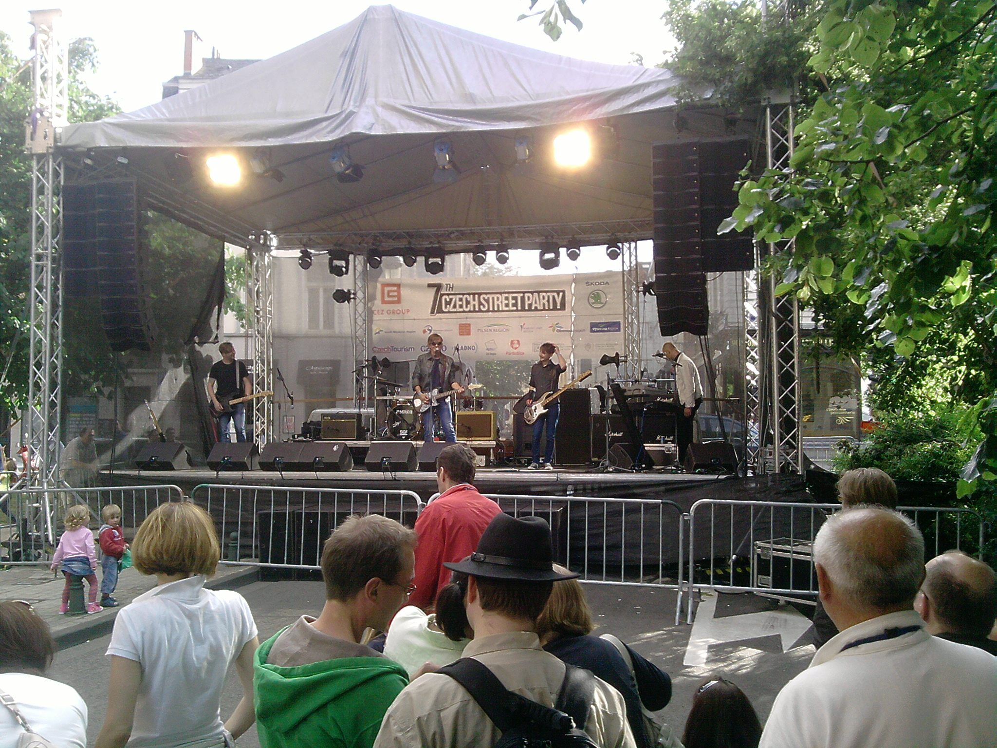 Michal Hrůza concert 7.Czech Street Party Brussels 2013.06.14.